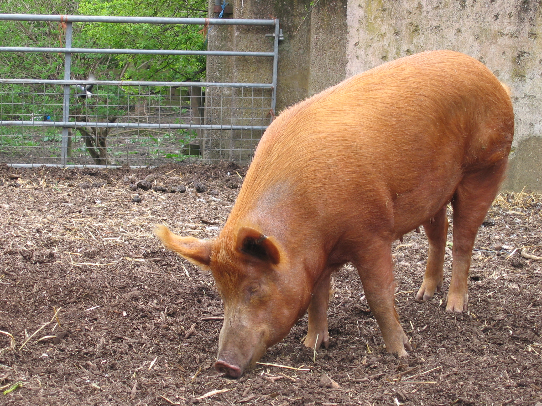 Mudchute City Farm pig - Breed: Tamworth.